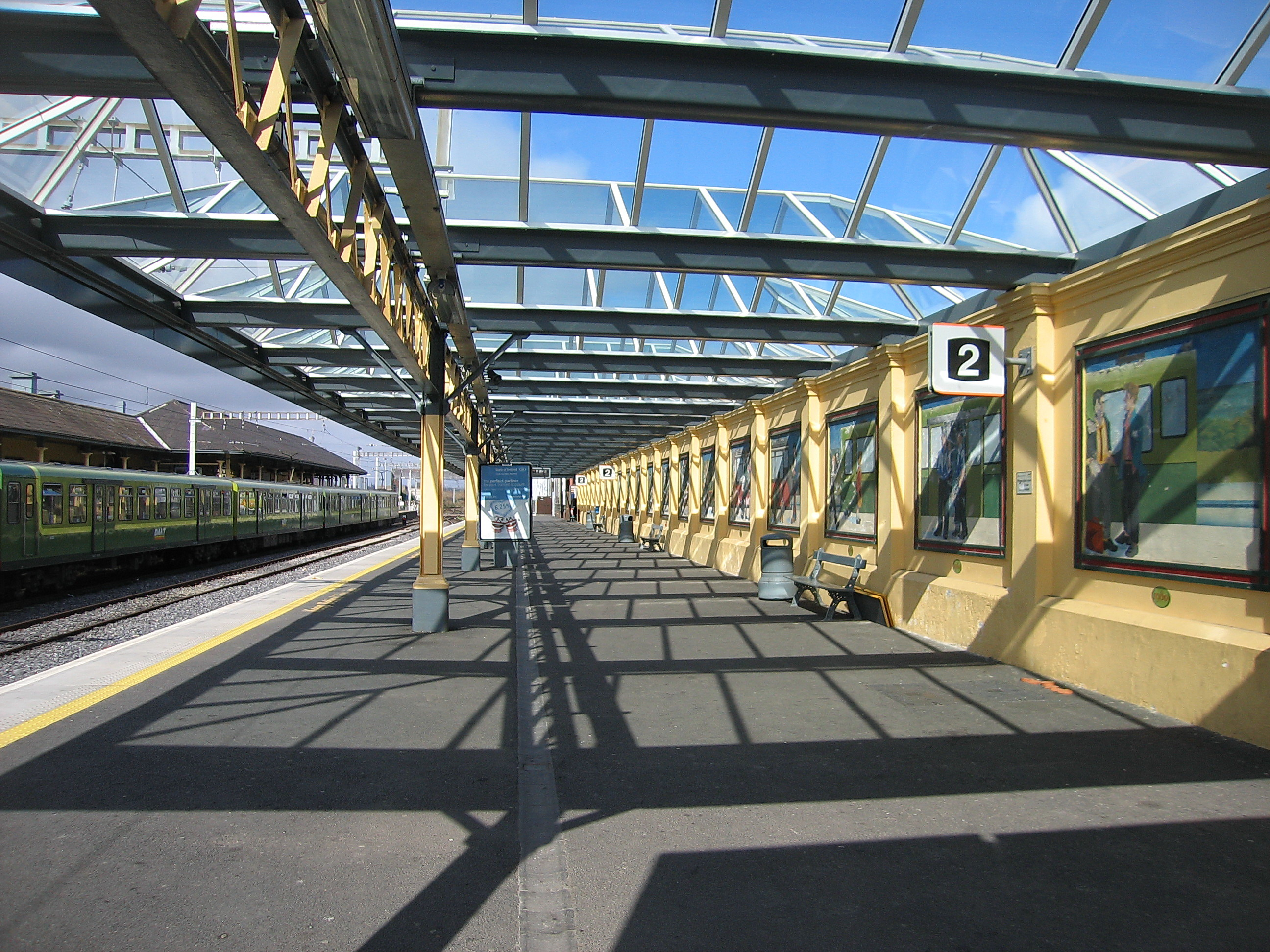 Bray Daly Railway Station, County Wicklow, Ireland